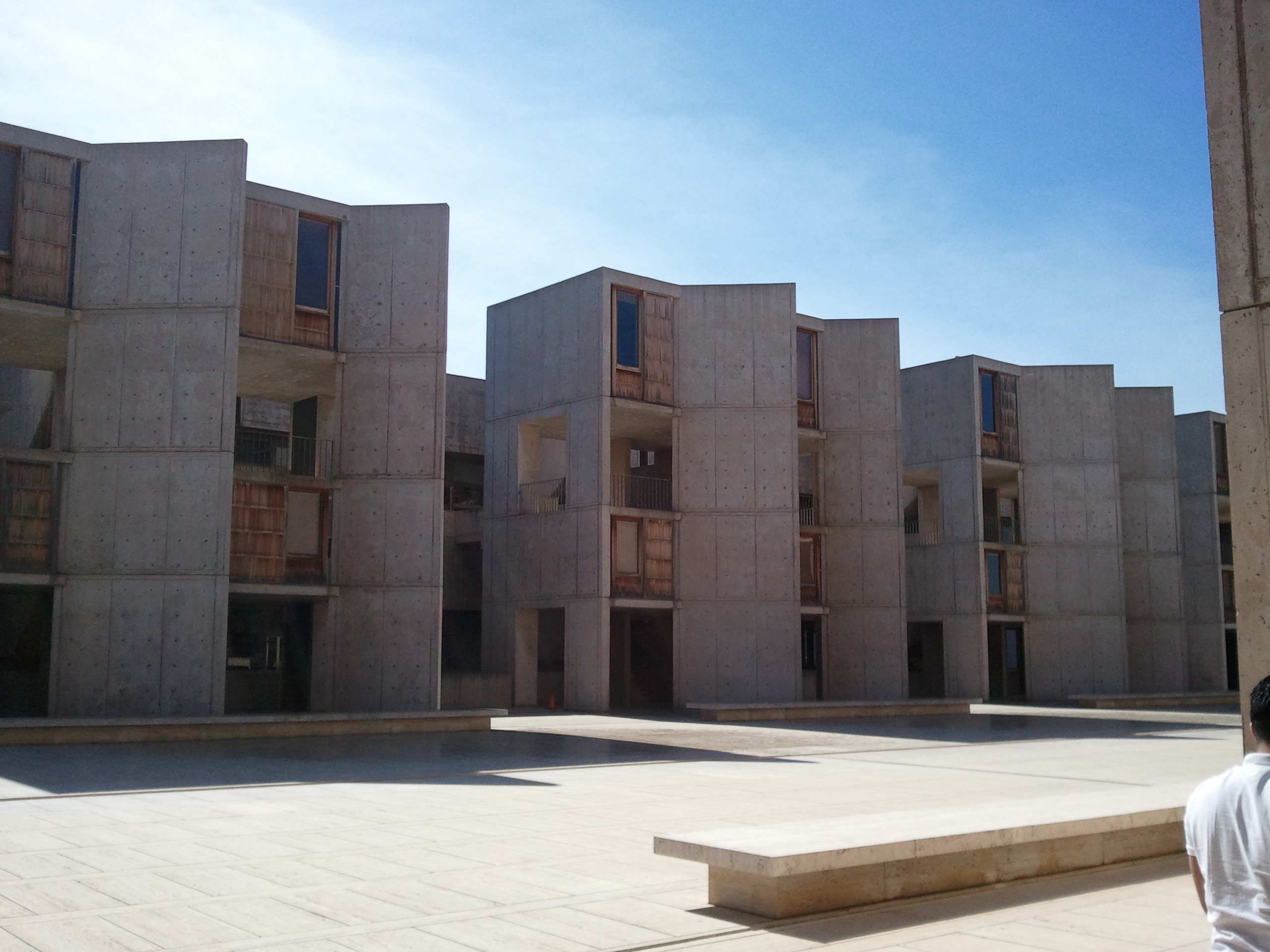 Salk Institute, California. Designed by Louis Kahn. Awesome use of concrete.